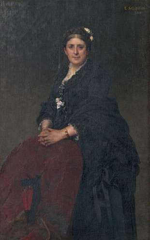 Portrait de Marguerite de Gravier (1833-1921), épouse de Maurice de Blic